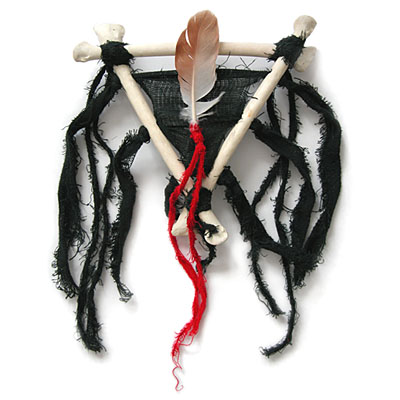 Laszlo Szlavics Jr.: Angelus, bone, textile, feather, etc., mixed technique, 180 x 240 mm, 2003